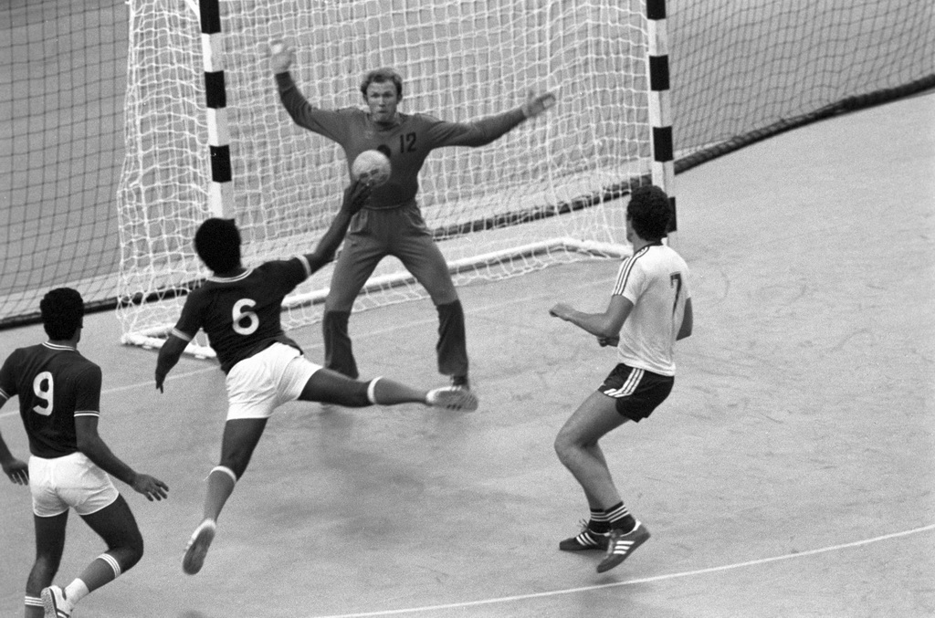 “Handball match USSR vs. Kuwait”. The 22nd Olympic Games. A handball match USSR vs. Kuwait. A high spot of the match at the gate.